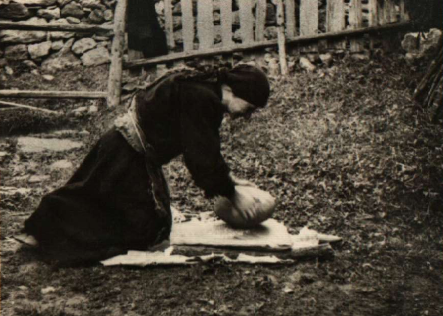 Use trahalnitsa - primitive kind hand grinder for grinding flour in the Rhodope Mountains, Bulgaria.